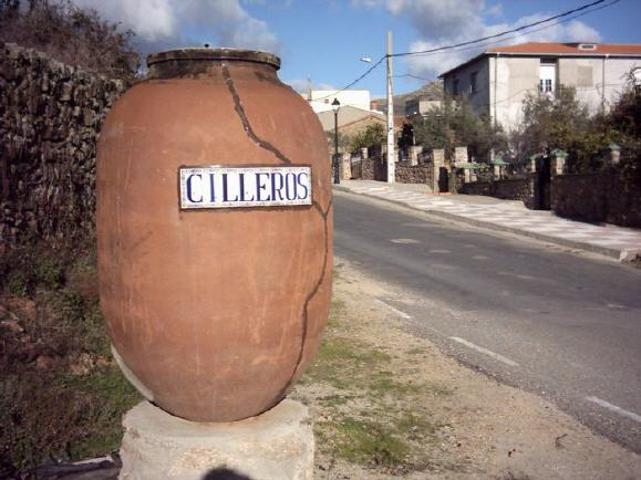 Tinaja Cilleros